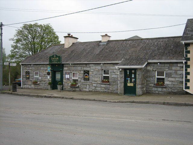 An Tintain - Guest House and Restaurant. An Tintain is the Irish for The Hearth or The Fireside. Nil aon tintain mar do thintain fein = There's no hearth like your own hearth.